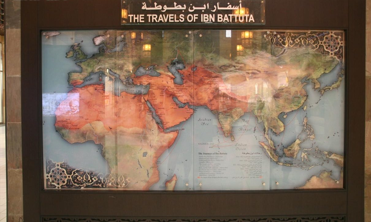 This is a photo showing a map of where Ibn Battuta travelled on 2 June 2007. This map is located in Ibn Battuta Mall in Dubai, United Arab Emirates.